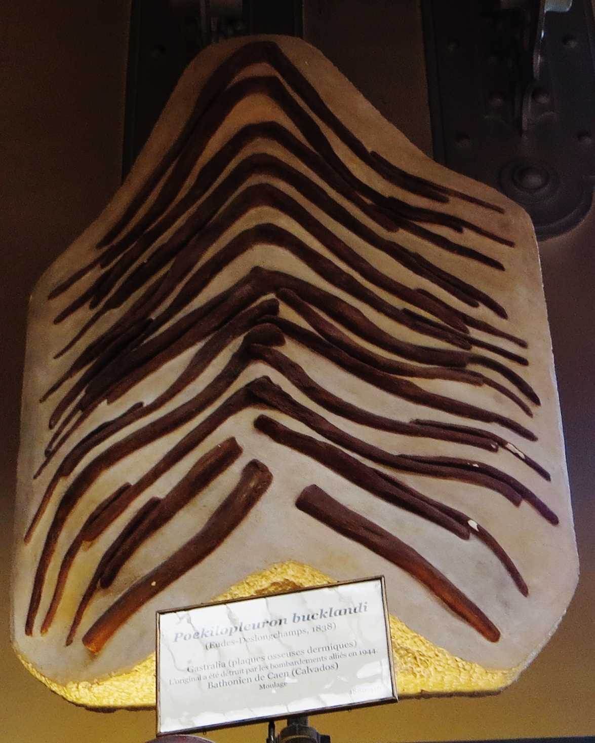 Fossil of Poekilopleuron, an extinct dinosaur. Took the photo at Muséum national d'histoire naturelle, Paris.